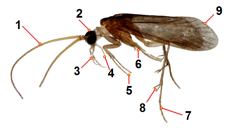 Tags added, original image = [Daternomina male.jpg].